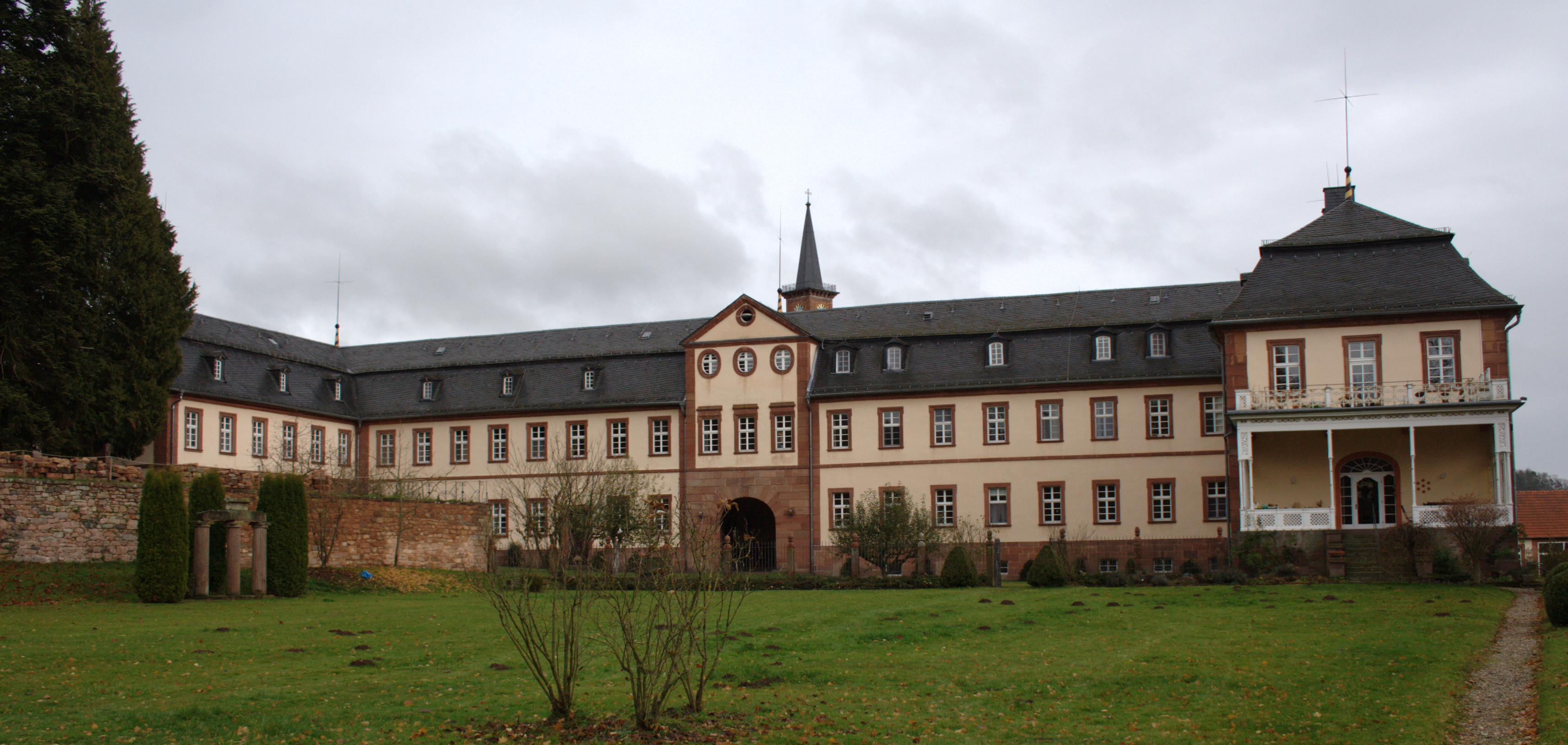 Castle in Stockhausen, Herbstein, Hessen, Germany